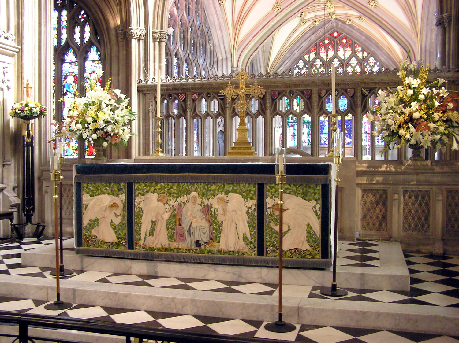 The altar in a Church of England church (St. Mary Redcliffe church, Bristol, England). Taken by Adrian Pingstone in April 2005 and released to the public domain.